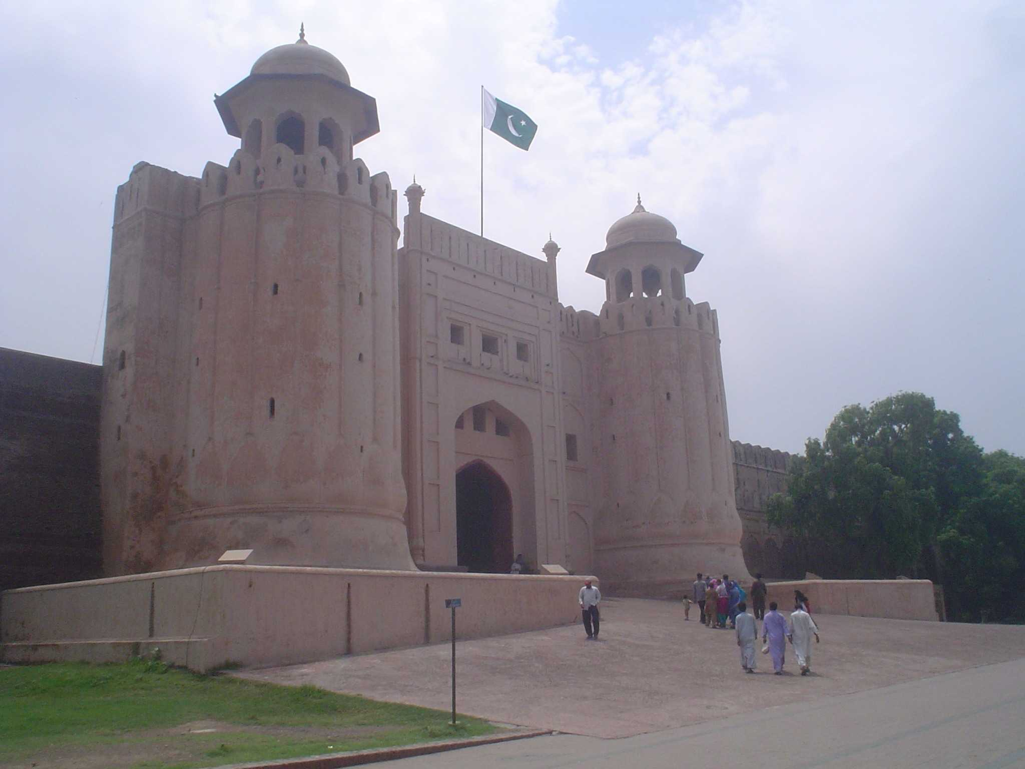 This is the front entrance to the lahore, one of thirteen entrances to the fort and inner city.